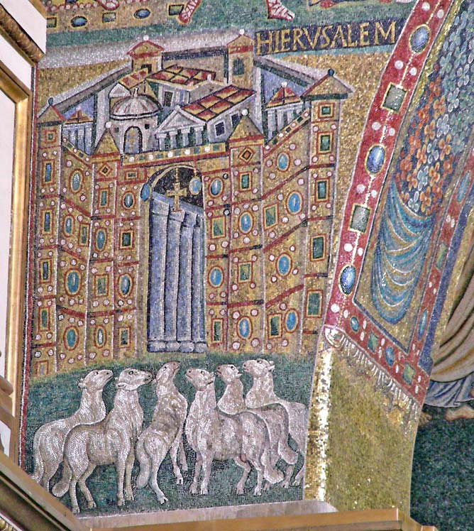 Triomphal Arch Mosaics in the Basilica of Santa Maria Maggiore in Rome, left side, fourth register from up (bottom)